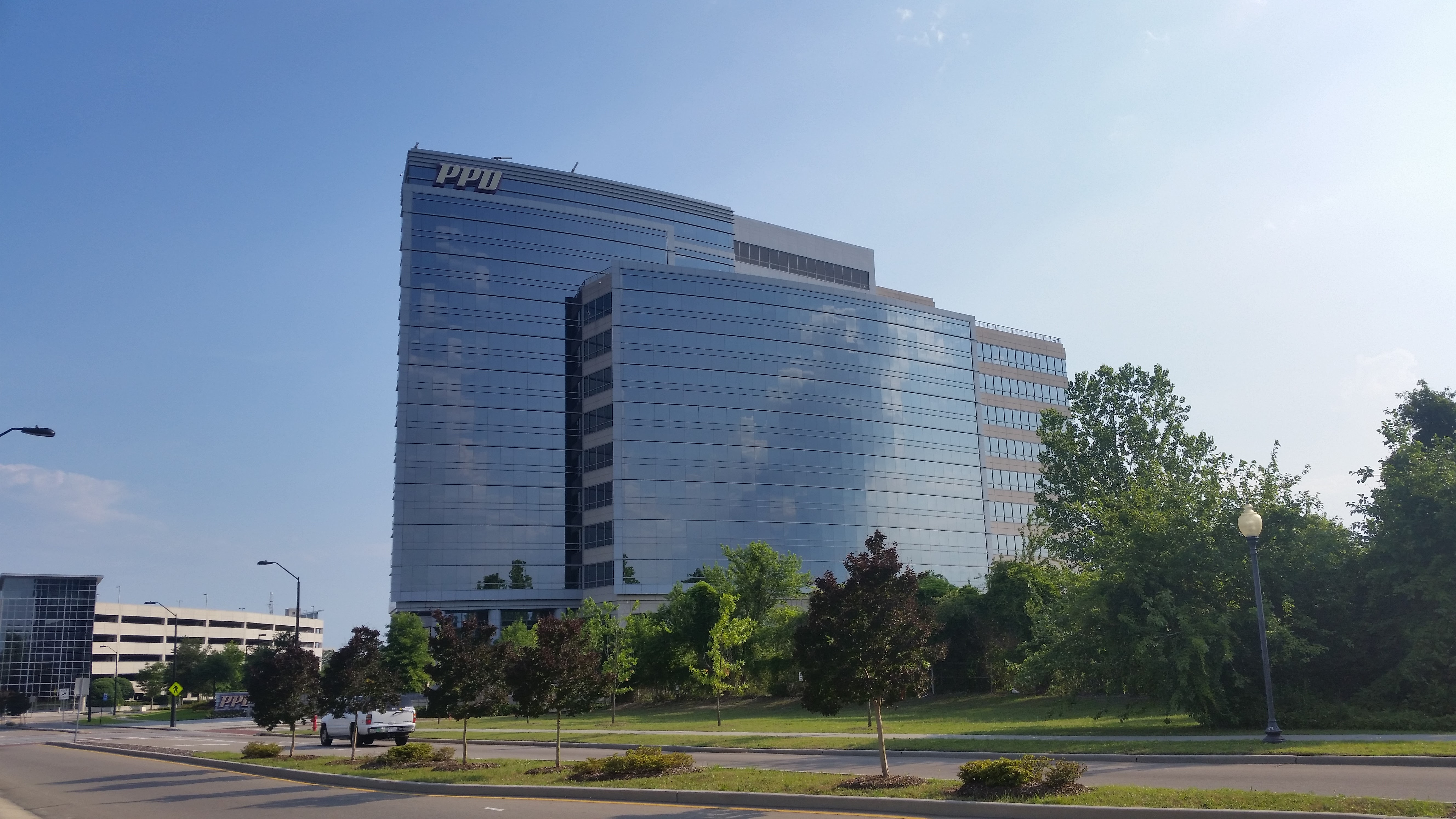 A photo of Pharmaceutical Product Development (PPD) headquarters in downtown Wilmington, North Carolina